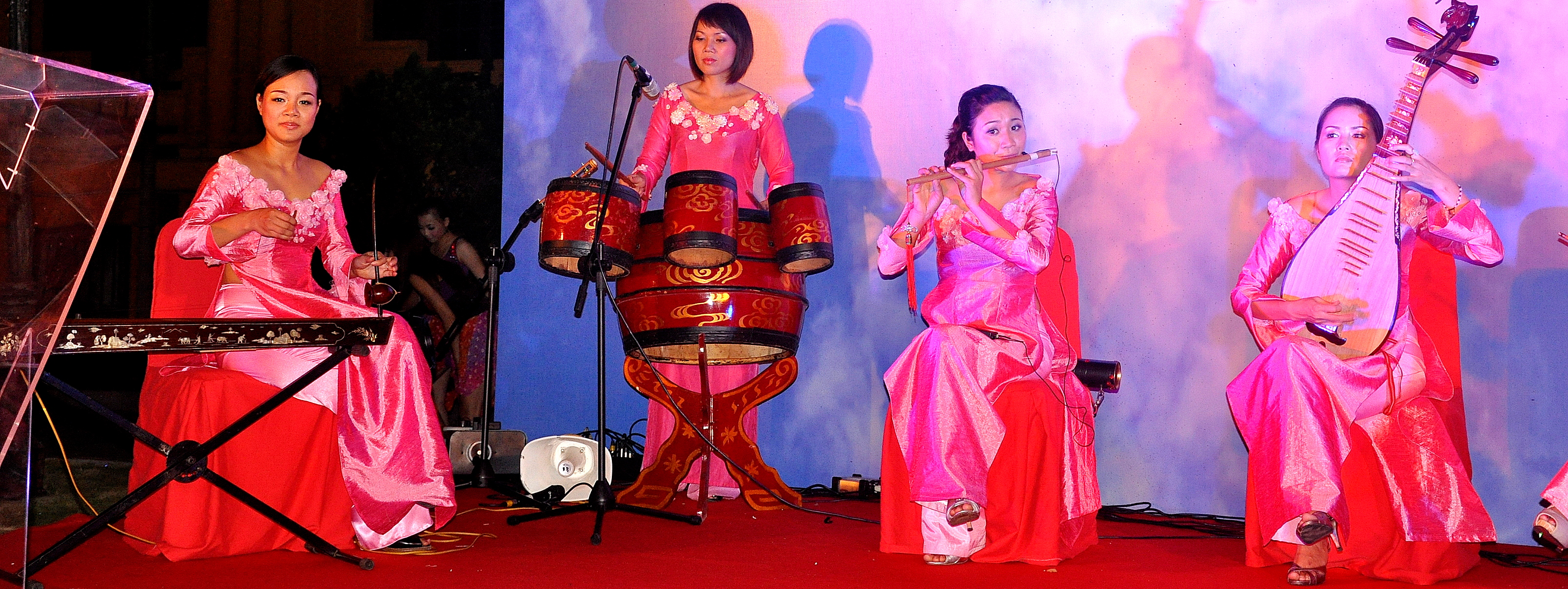 For a better visual, view in large size Beautiful performance and a memorable evening. Vietnamese musical instruments can be divided into four groups: Plucked Strings: Dan Bau, Dan Day, Dan Doan, Dan Nguyet or Kim, Dan Tam, Dan Tam Thap Luc,, Dan Tranh, Dan Ty Ba, Dan Xen, etc... Bowed Strings: Dan Co or Dan Nhi, Dan Gao, Dan Ho, etc... Winds: differents kinds of flute, "Ken Da.m" oboe. Percussion: Chuong, Senh Tien, Trong Cai, Trong Com, Trong De, Mo, Phach, Nao Bat, Thanh La (cymbals), etc... Location: National Museum of Vietnamese history